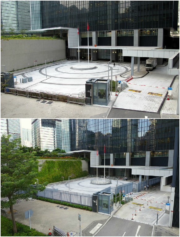 CGO East Wing Entry Plaza Compare